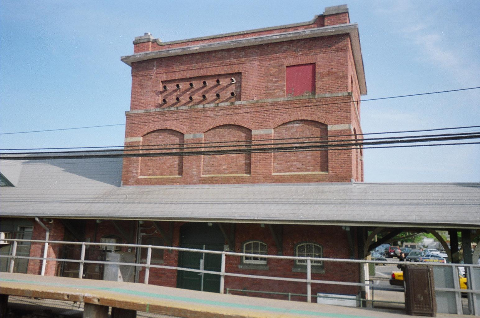 View of the tower for the historic Farmingdale (LIRR station). Note the former connections to electrical cables of the old Huntington Railroad Trolley Cars.